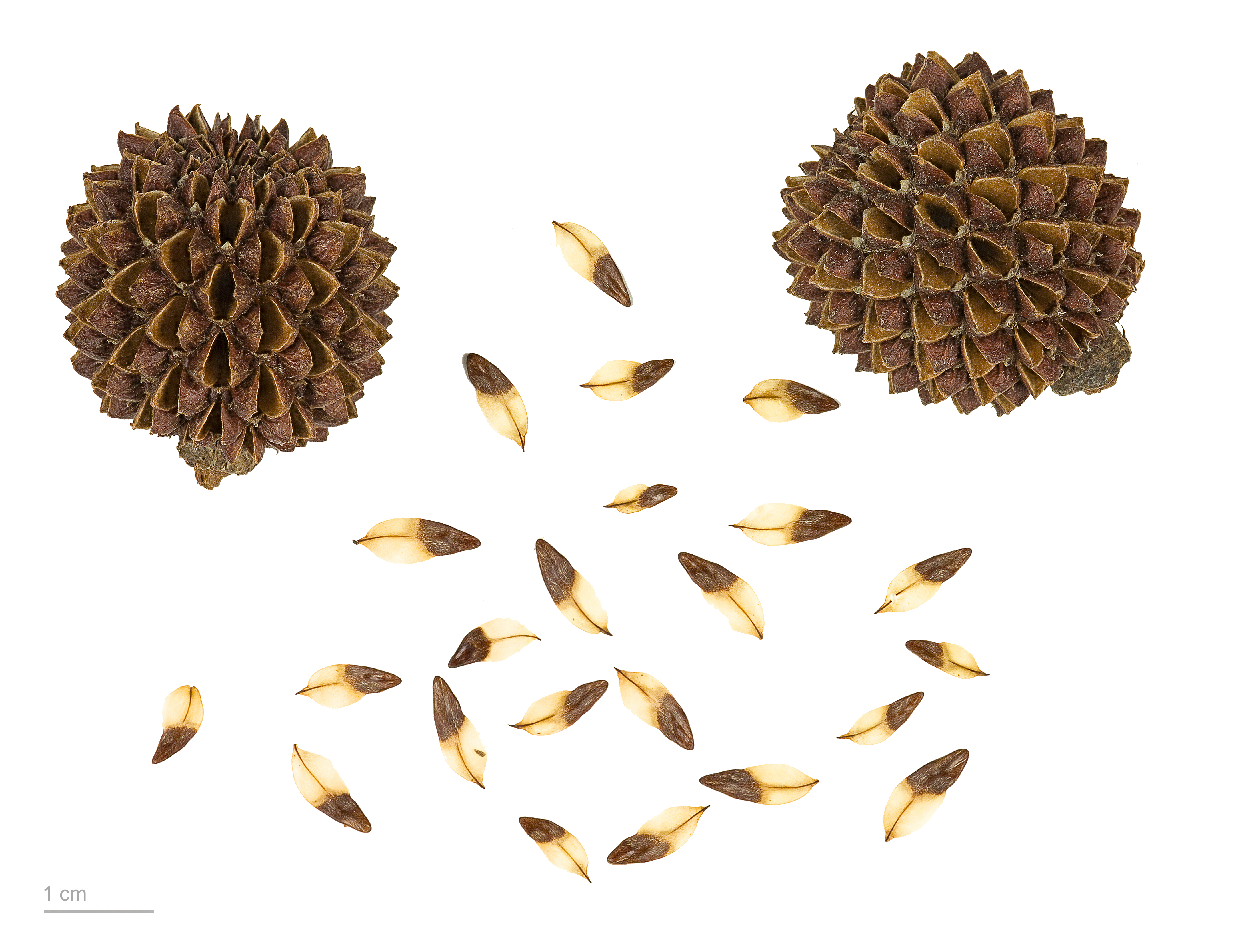 she-oak, fruits and seeds